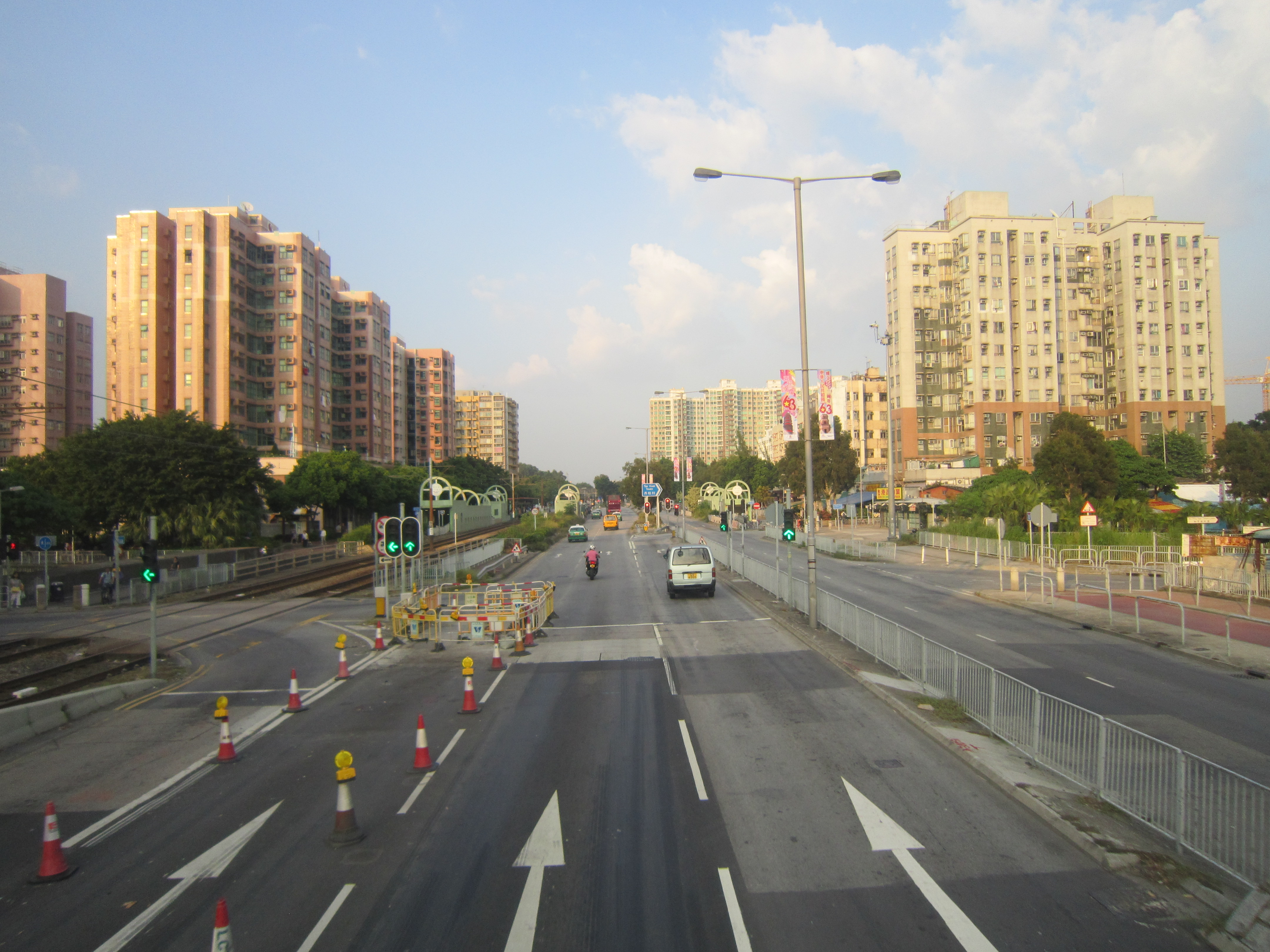 Castle Peak Road Hung Shui Kiu section